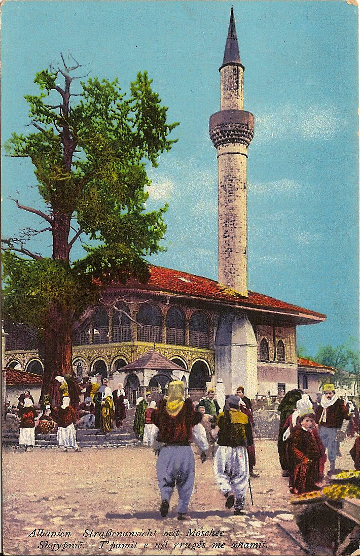 Historic postcard from Albania showing the Old Mosque of Tirana